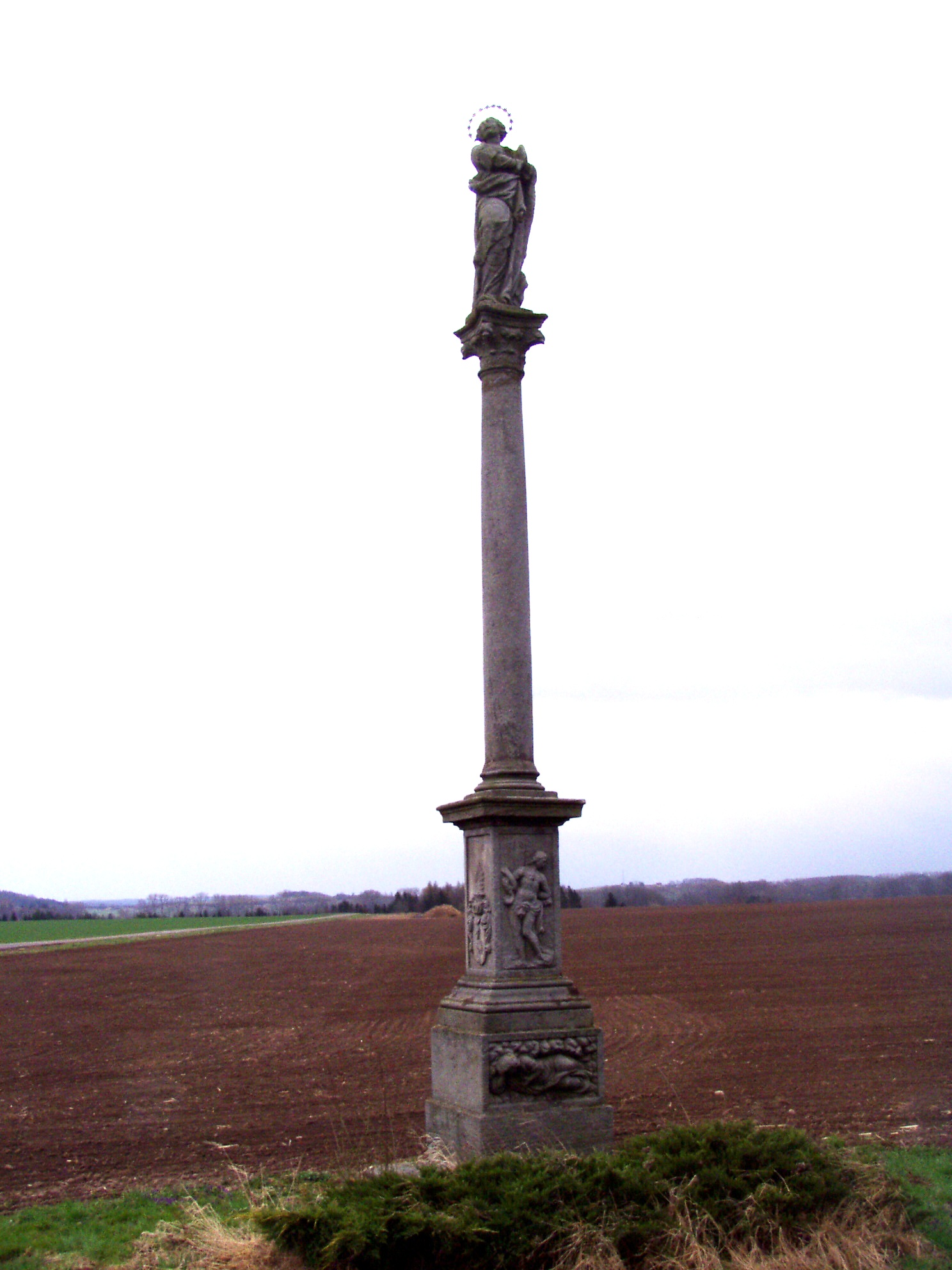 Svinišťany - St. Rosalie